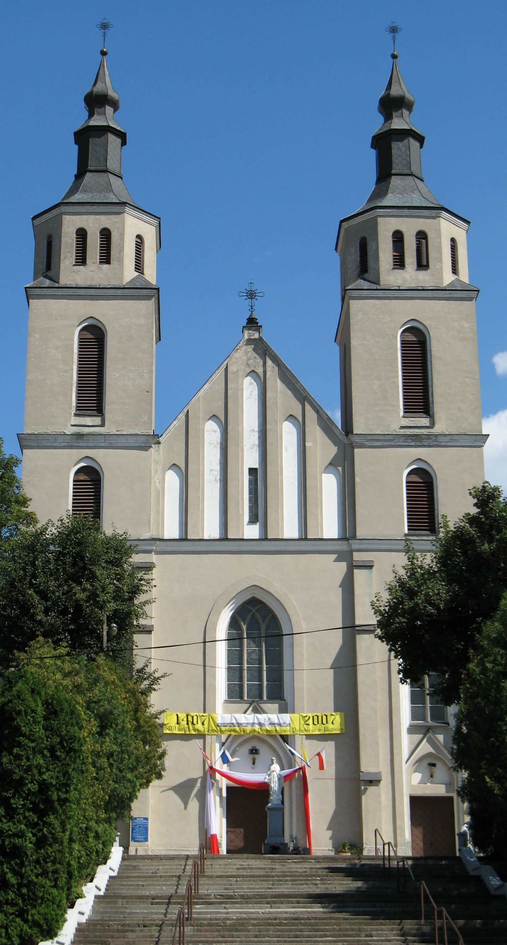 Transfiguration of the Lord's Church in Piątnica (view on facade)